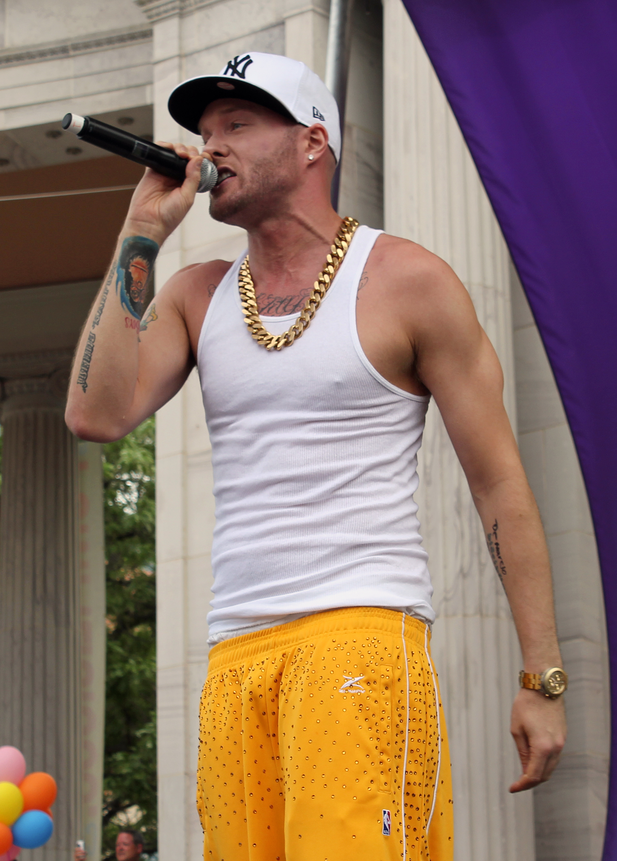 Cazwell (Real name Luke Caswell), a rap music artist from the United States.